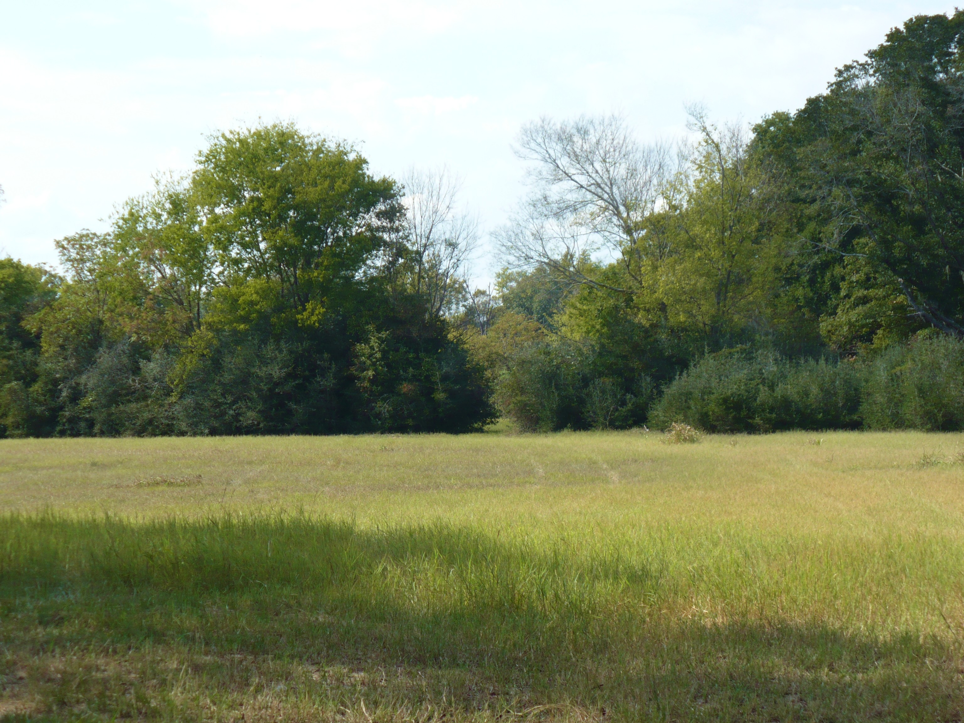 The Liddell Archeological Site in Wilcox County, Alabama. Taken from the entrance gate.